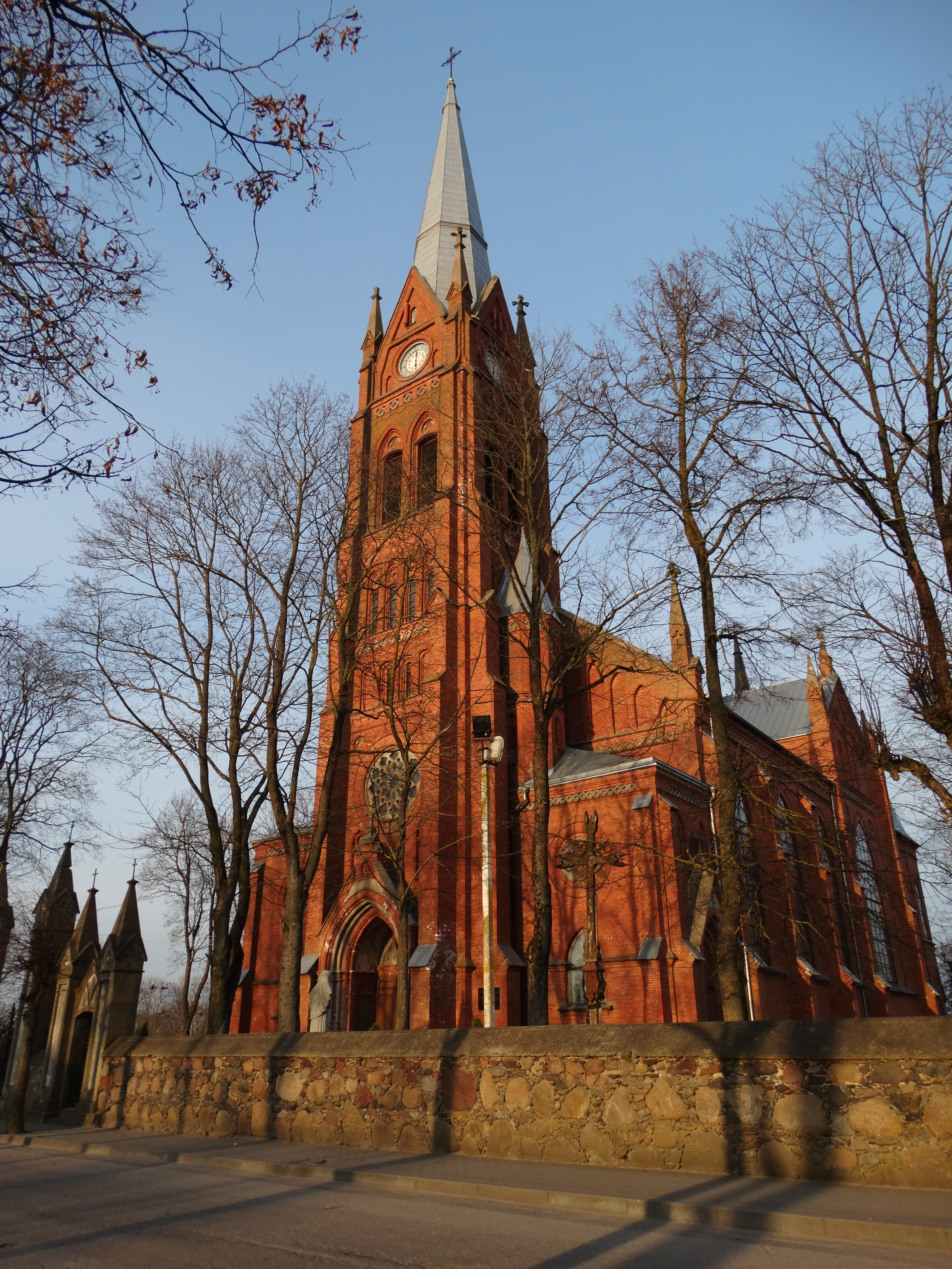 Roman Catholic Church of St. John the Baptist, Ramygala, Lithuania